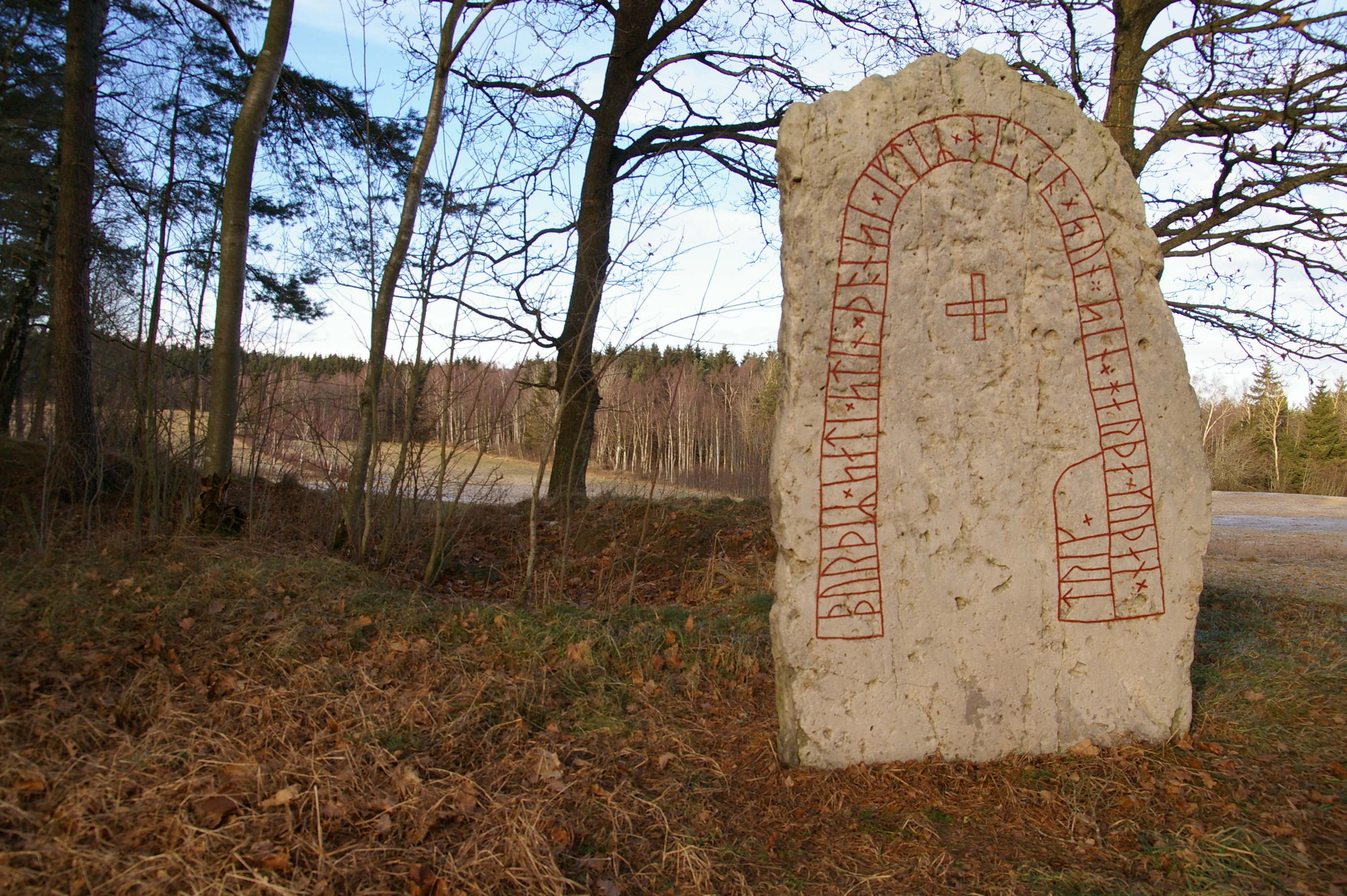 Runestone, Sweden, Västergötland (Vg 90) (Håkantorp 42:2) Torestorp WGS84(58.2429N,13.6014E)